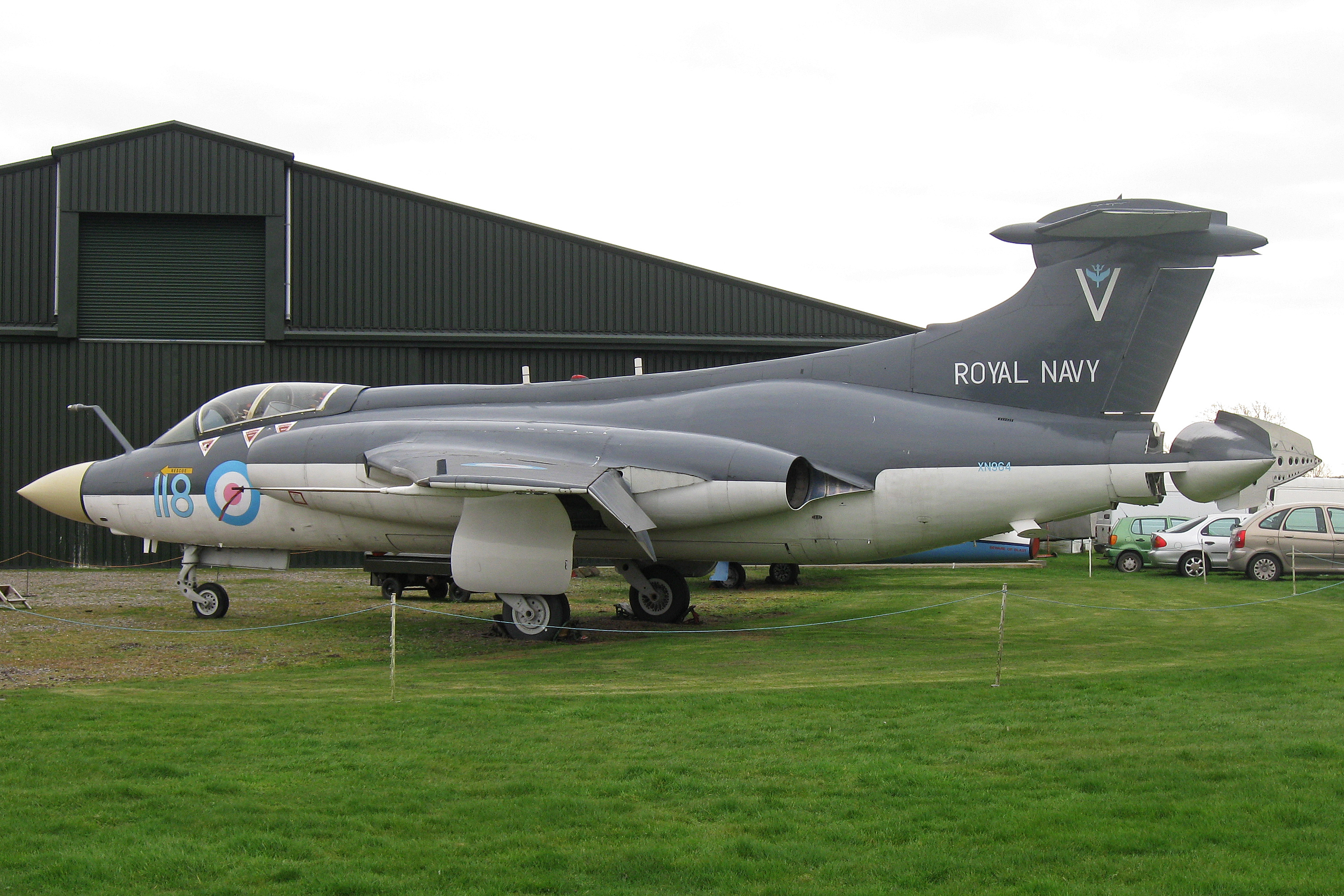 In 801NAS markings as flown from HMS Victorious from 1963 to 1965. Whilst serving with 736NAS she took part in bombing attacks on the crippled supertanker 'Torrey Canyon'. msn B3-19-62. Newark Air Museum. 12-3-2011